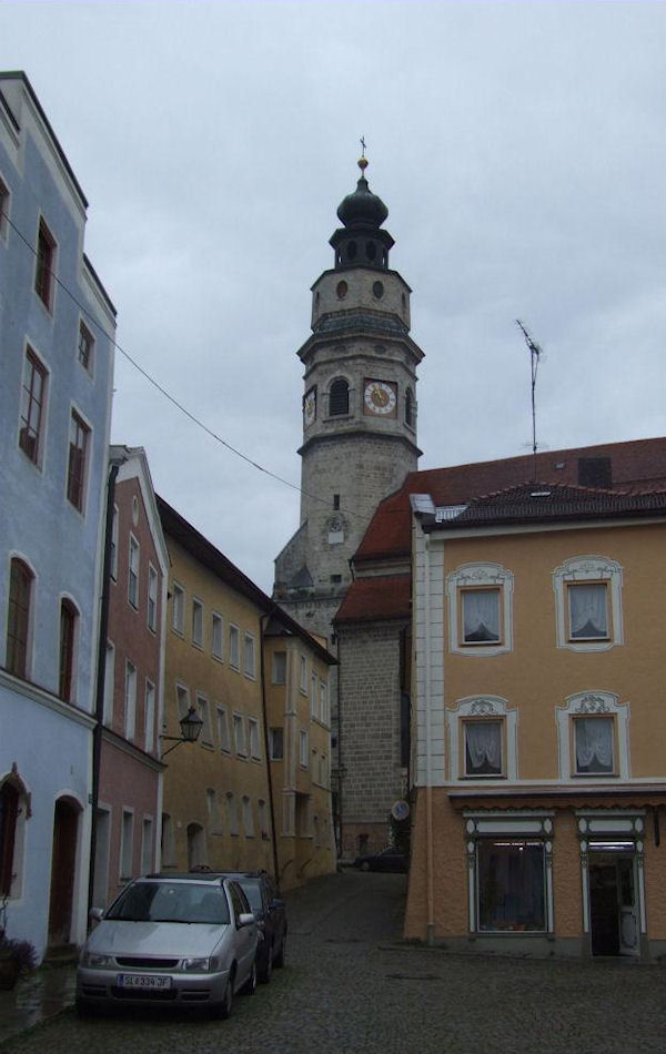 Laurentiuskirche / Church of St. Laurentius, Tittmoning, Germany